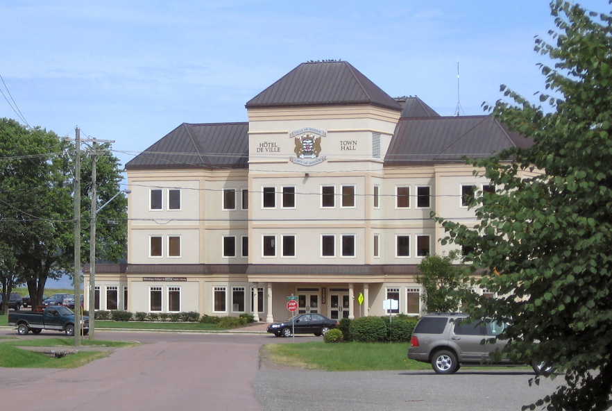 Self made photo, 2006